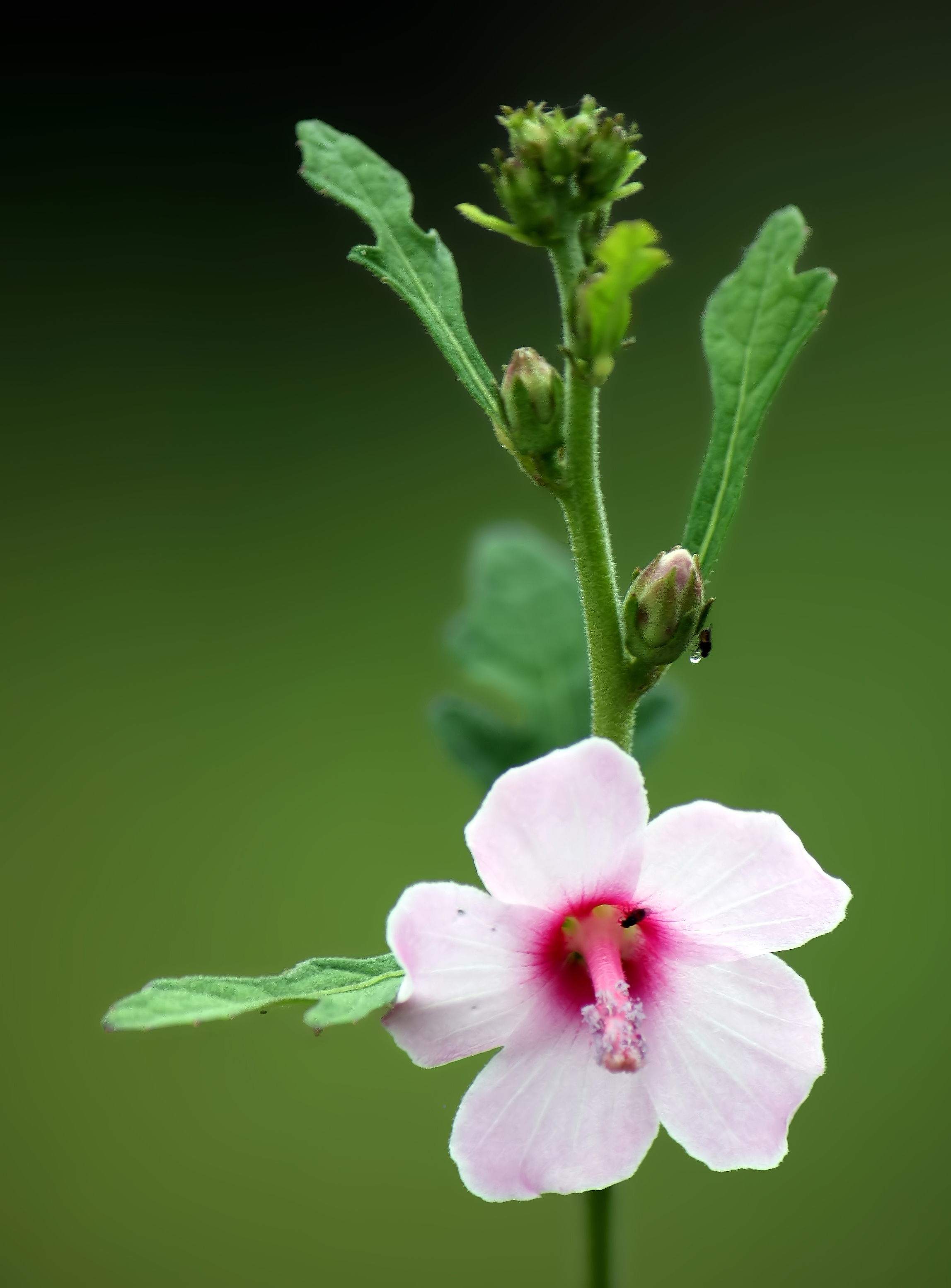 Caesarweed (Urena lobata) in Sri Lanka.